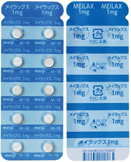 Meilax (Ethyl loflazepate) 1 mg tablets